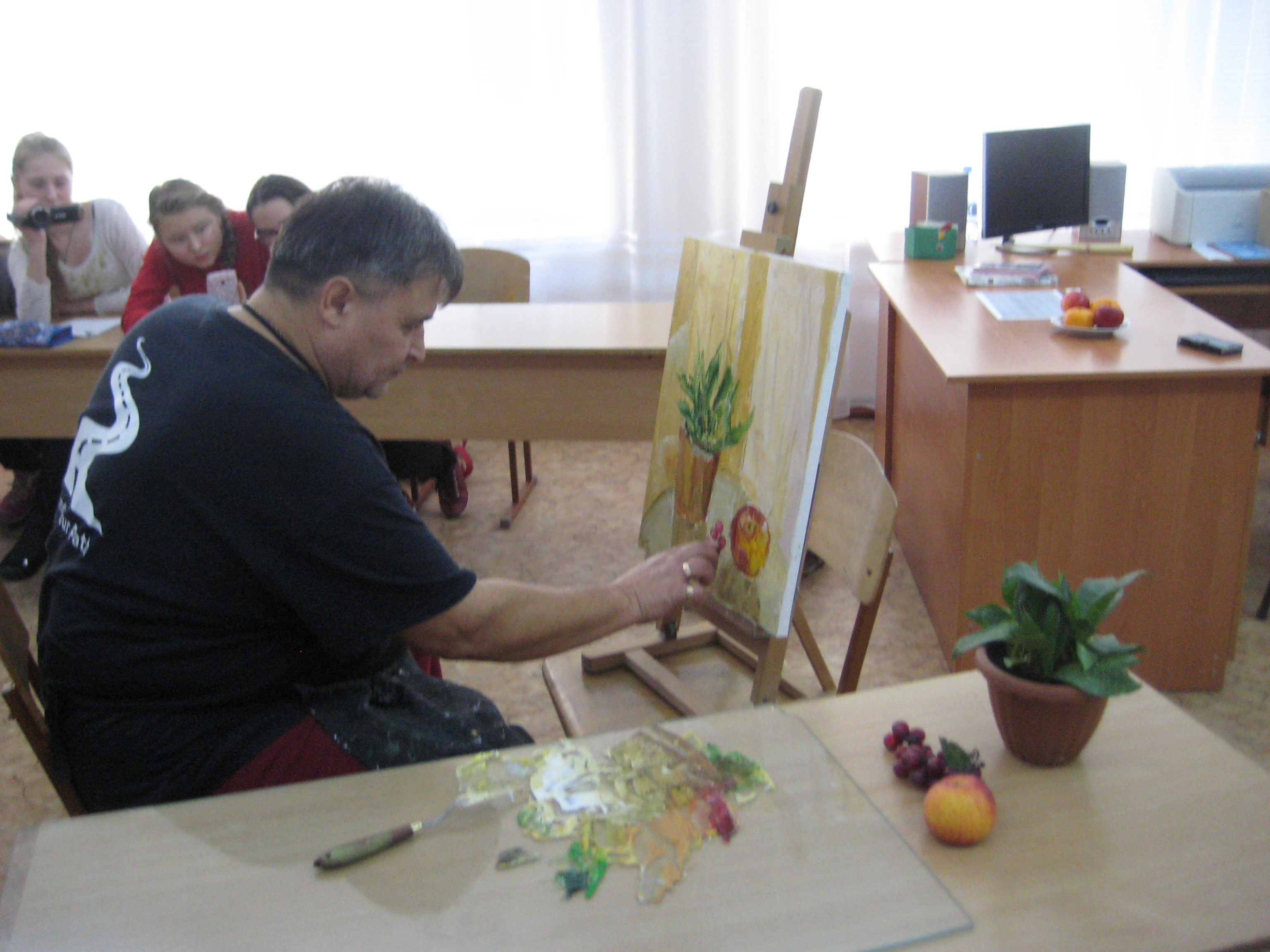 14.12.2016 р. майстер-клас для учнів М-Погорілівської загальноосвітньої санаторної школи-інтернату Миколаївської обласної ради. Під-час майстер-класу художник використовує мастихін